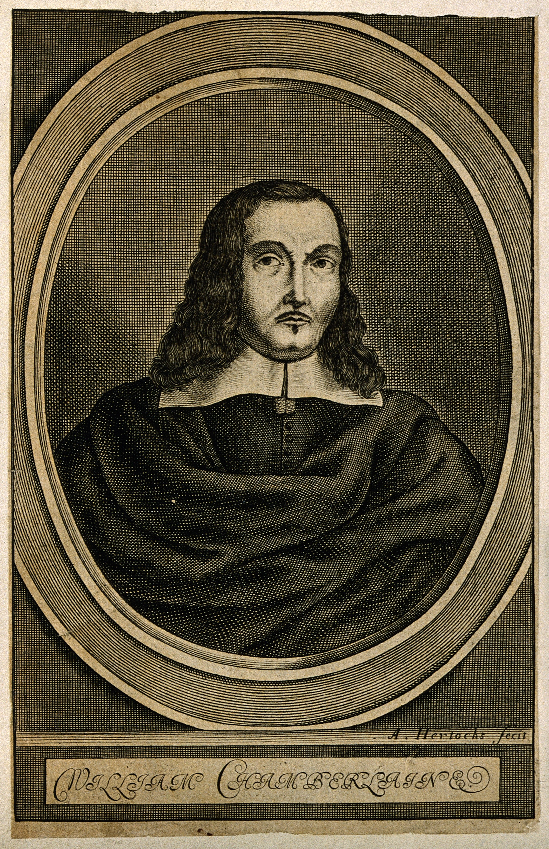 William Chamberlayne. Line engraving by A. Hertocks, 1659. Iconographic Collections Keywords: portrait prints; chamberlayne, william, 1619-16; engravings; William Chamberlayne